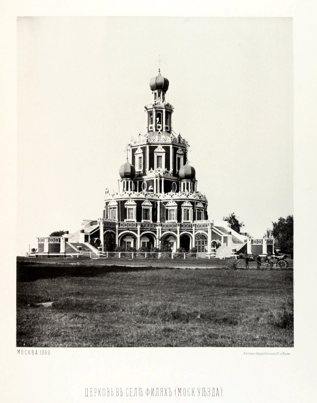 Plate 43: Church in Fili.